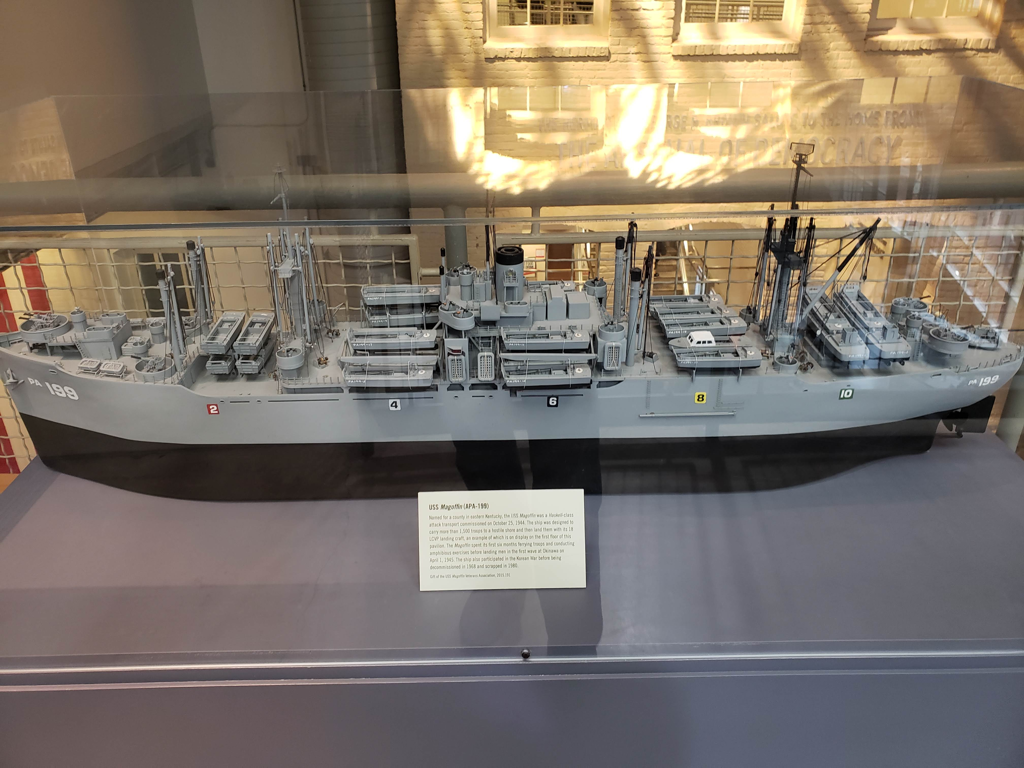 Model of the USS Magoffin at National World War II Museum in New Orleans, Louisiana. Photo taken October 2019.